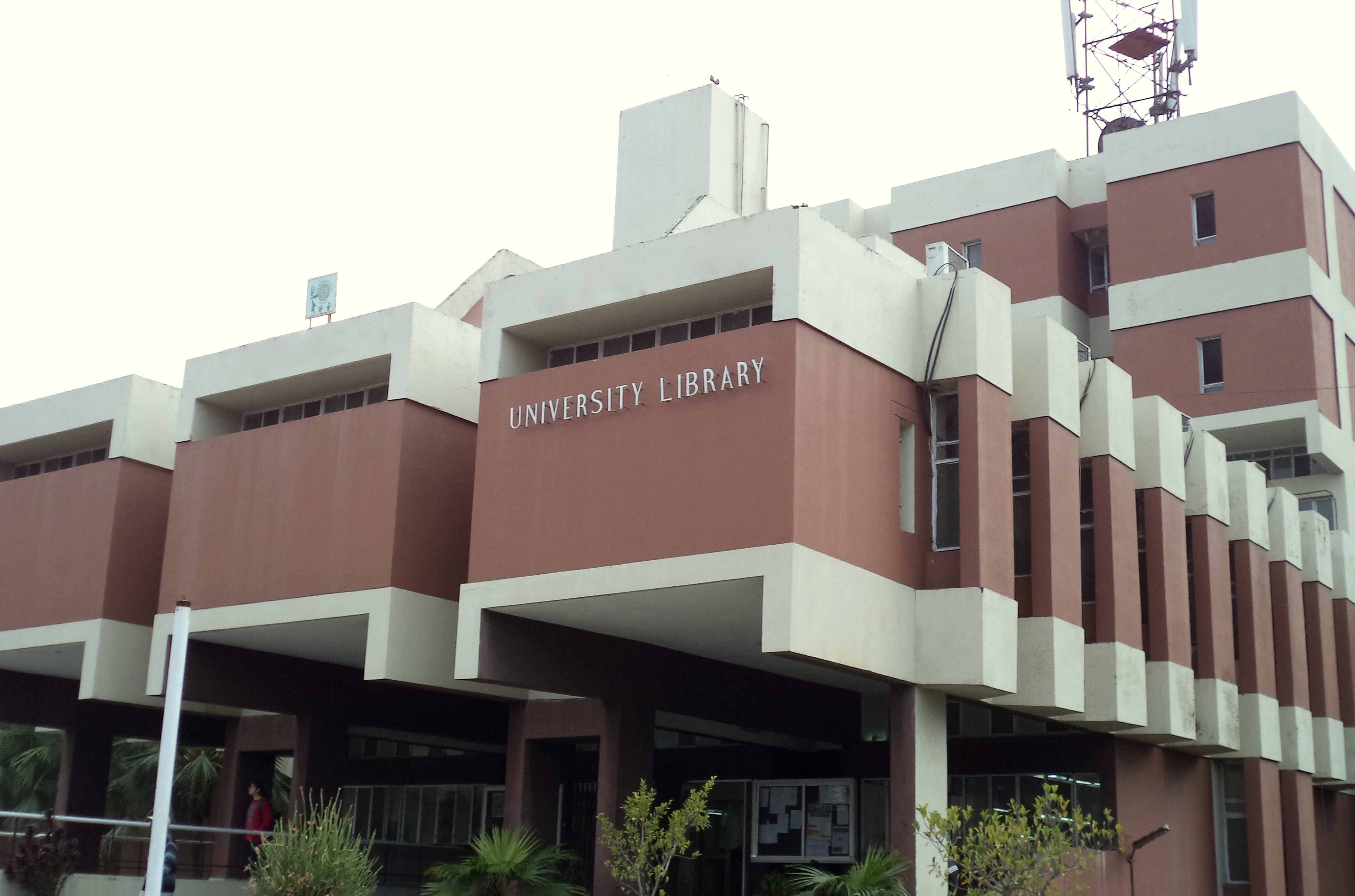 University Library building in campus of G. B. Pant University of Agriculture and Technology, Pantnagar, Uttarakhand, India